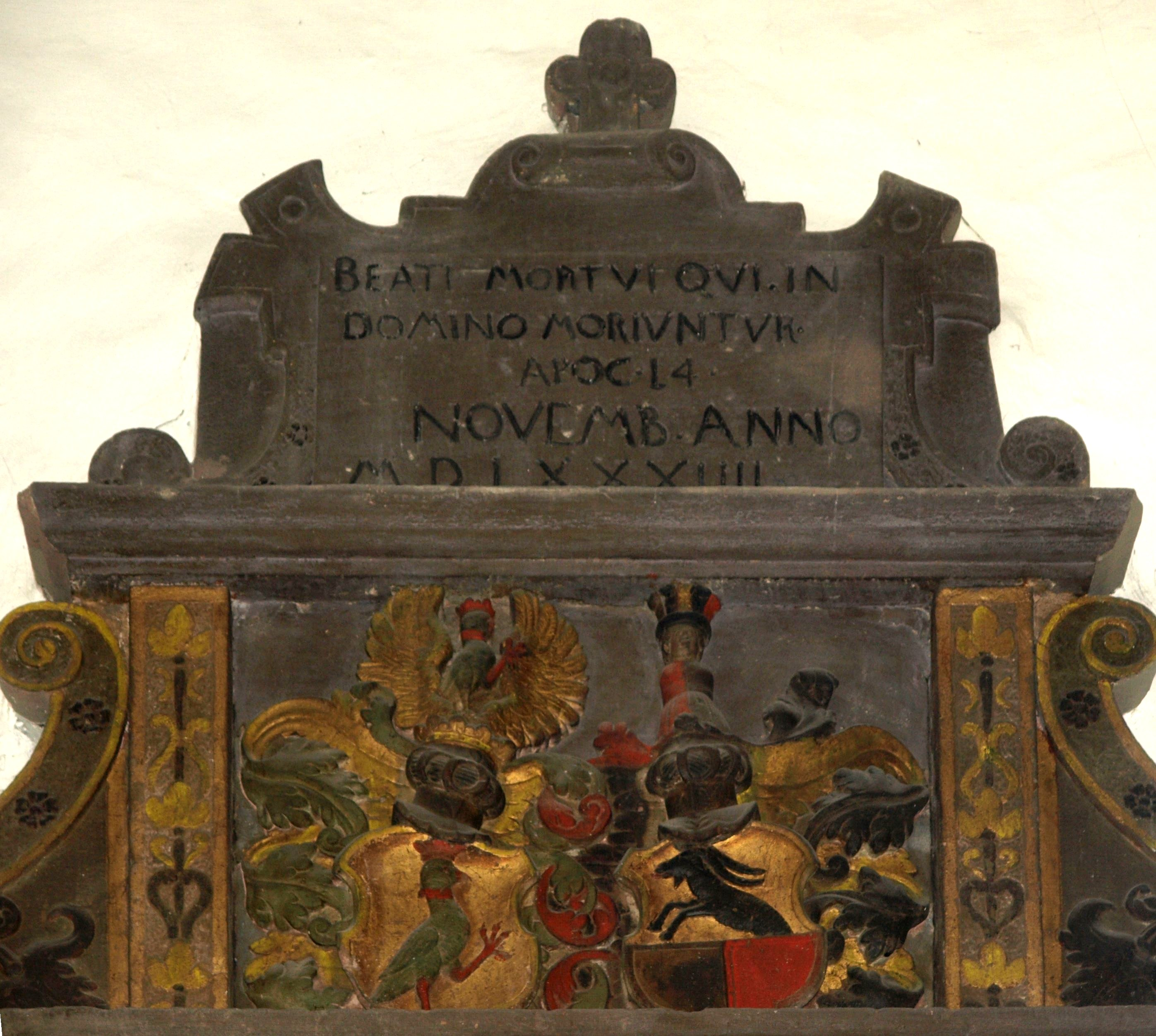 coat of arms from familiy "von Buchenau" (left) an "von Goldacker" (right), attached over grave of Eberhard von Buchenau an his wife